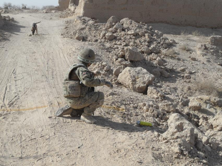 Operates within an Advanced Search Team (AST) Providing a stand off detect capability.